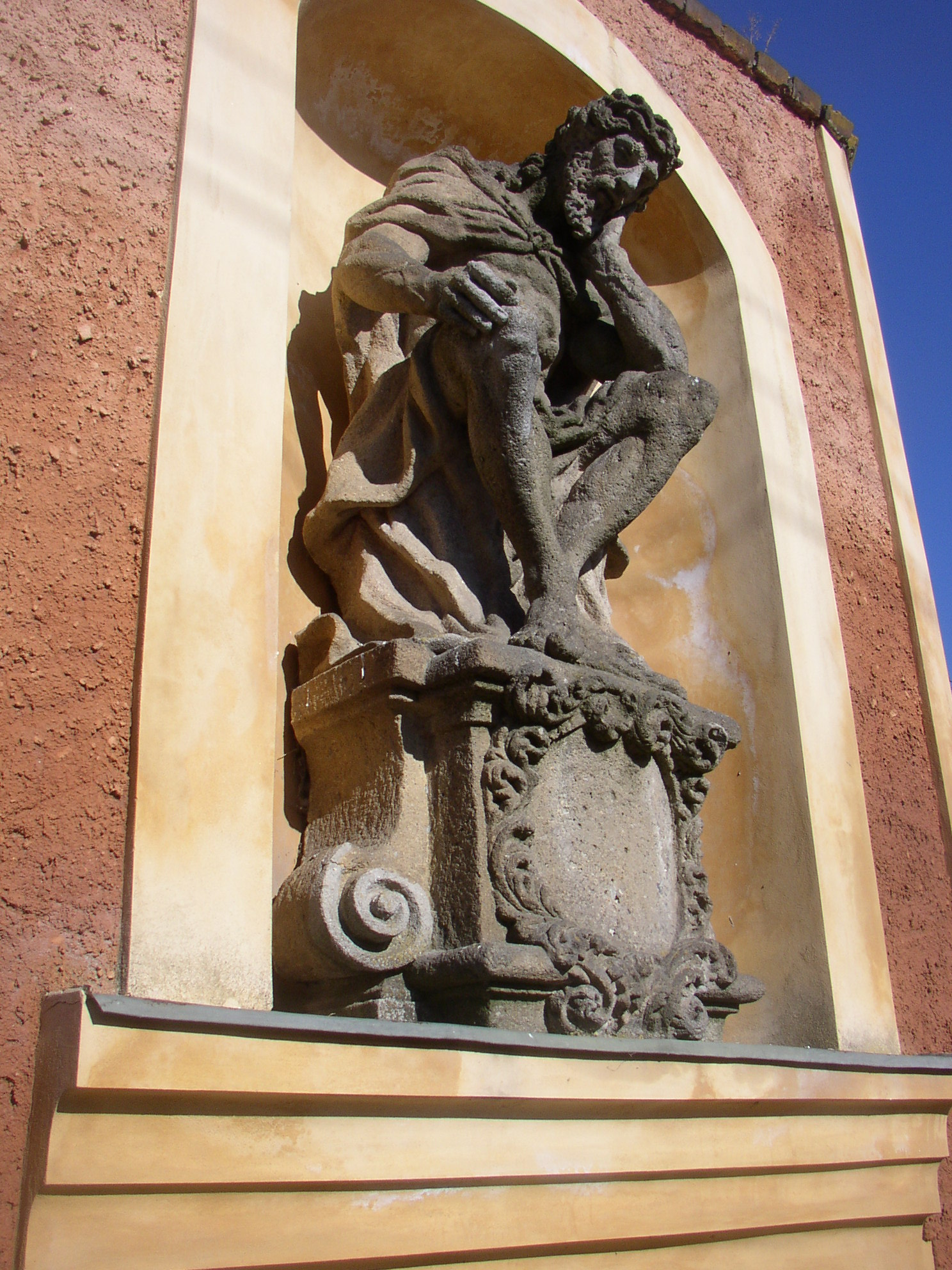 Sculpture of Pensive Christ (c. 1700) in corner of a wall surrounding St Martin church in Tursko, Prague-West District, Czech Republic. Close-up, right side.